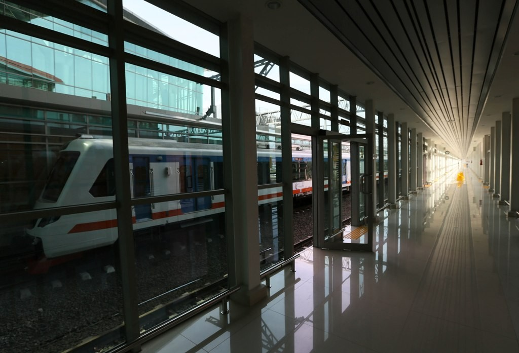 A train arriving at Soekarno–Hatta International Airport Station